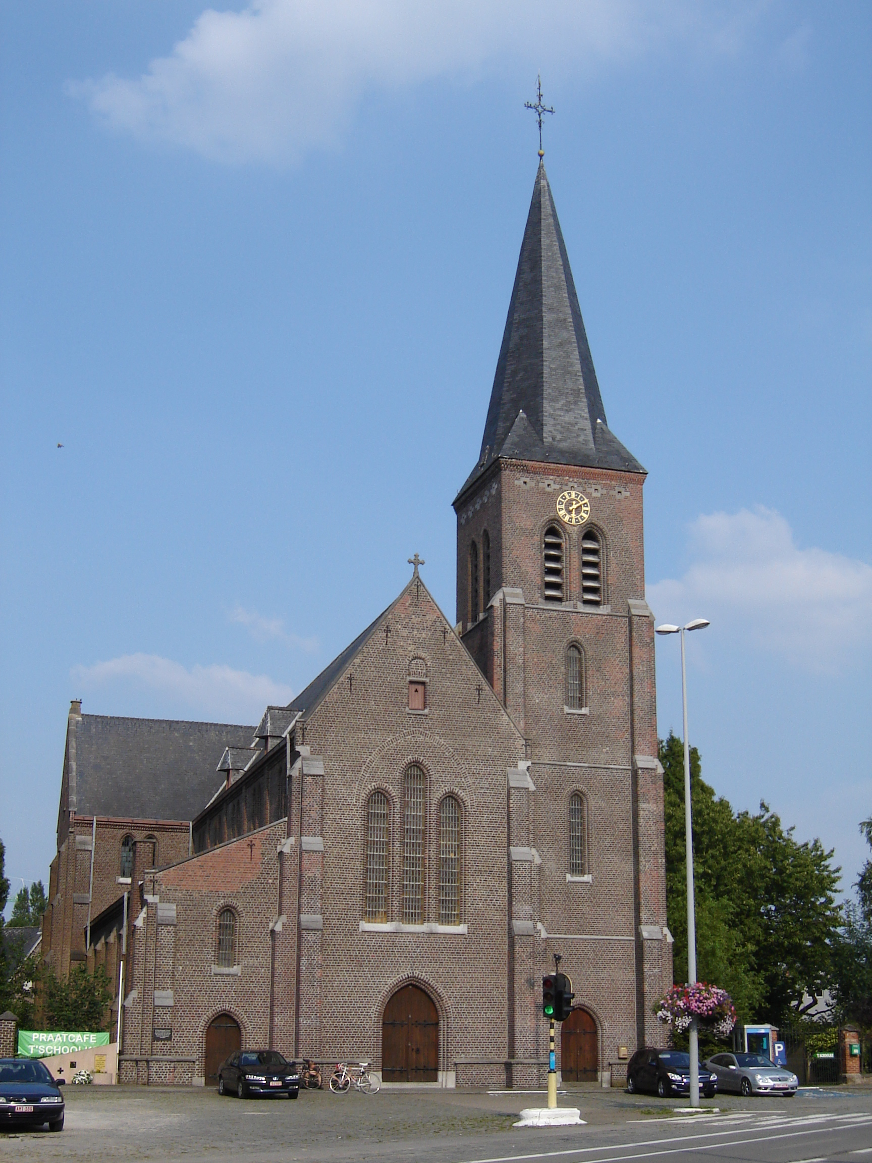 Church of the Sacred Heart in Kwatrecht. Kwatrecht, Wetteren, East Flanders, Belgium